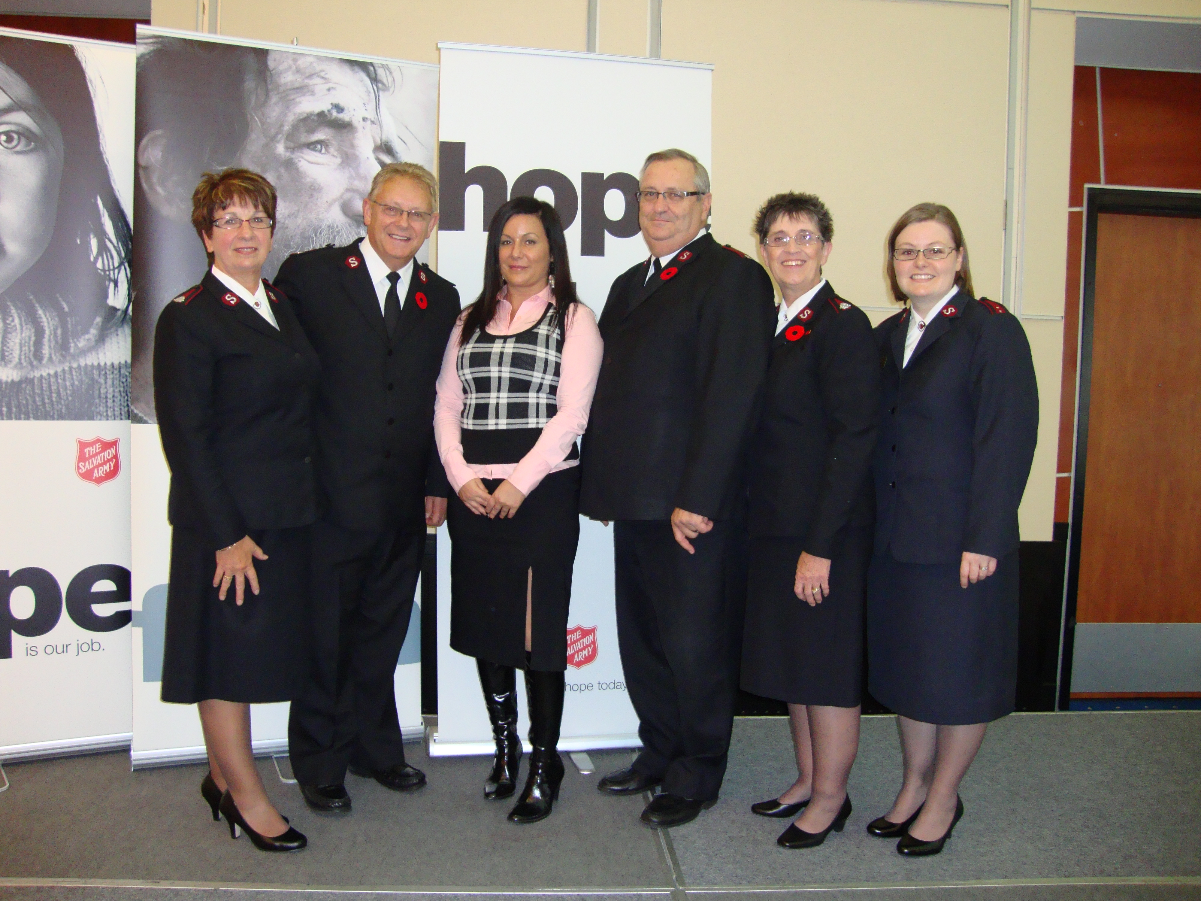 Natasha Falle surrounded by Salvation Army officers